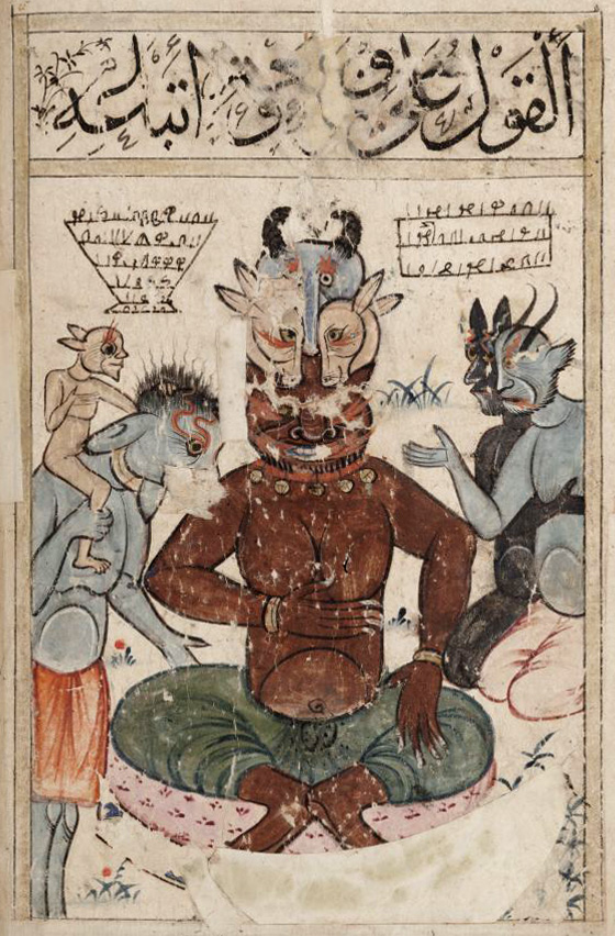 Zawba‘a, the demon king of Friday. From Kitab al-Bulhan, a composite astrology/astronomy/geomancy Arabic manuscript. Original held by the Bodleian Libraries. Shelfmark: MS. Bodl. Or. 133. Fol. 31b. Other names for this king of the jinns include Abu Hasan Zoba'ah and al-Abyad, according to R. Lebling (2010) "Legends of the Fire Spirits" ISBN 9780857730633